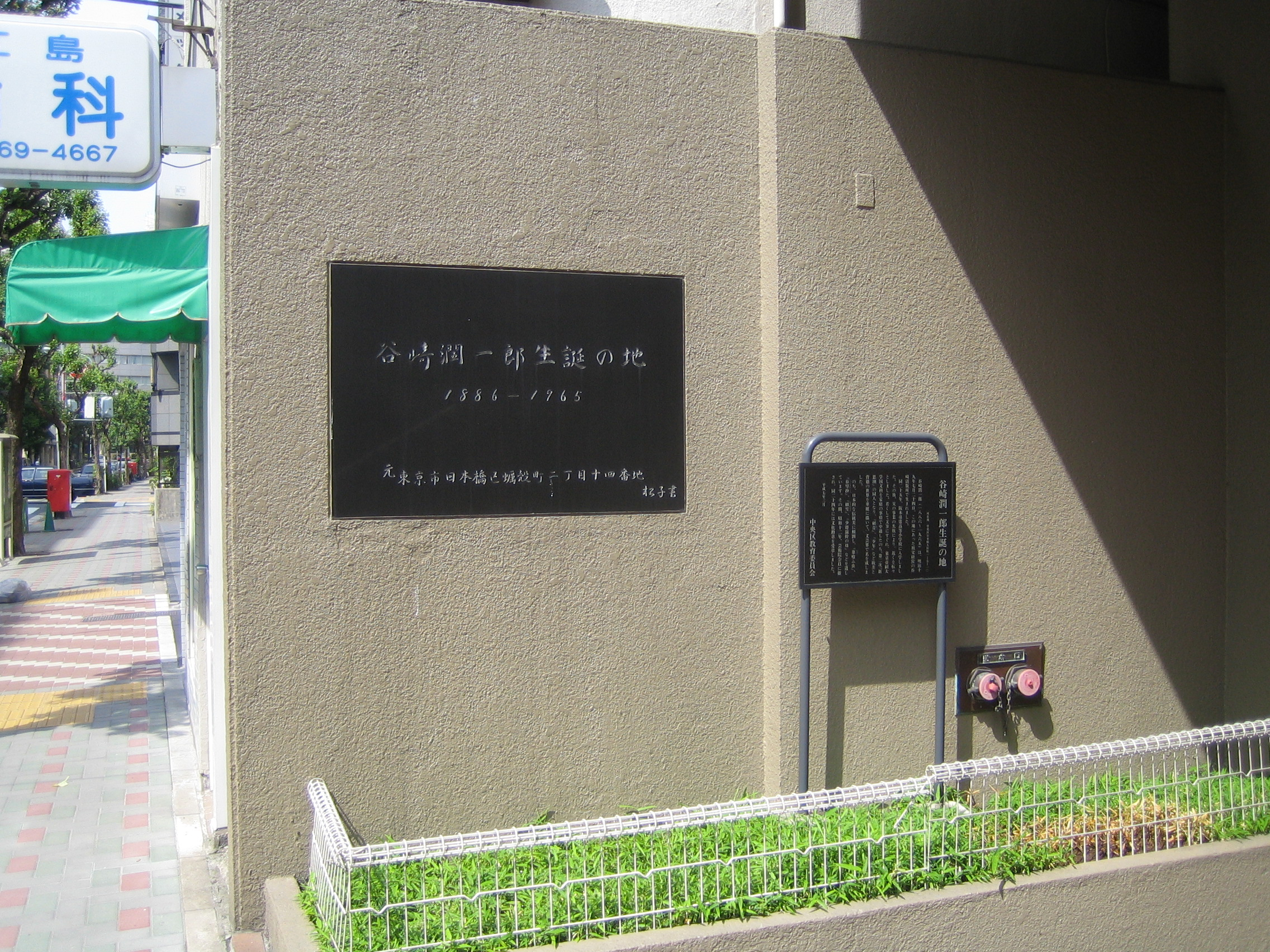 Birthplace of Jun'ichiro Tanizaki (谷崎潤一郎), in Chuo, Tokyo, Japan